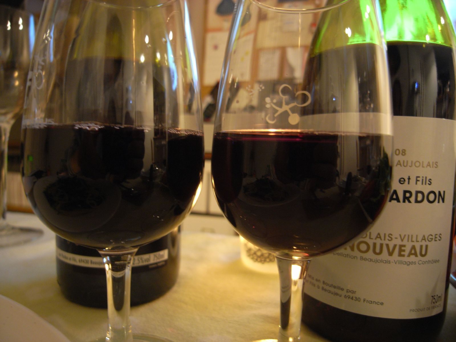 Glasses of the French wine from Beaujolais